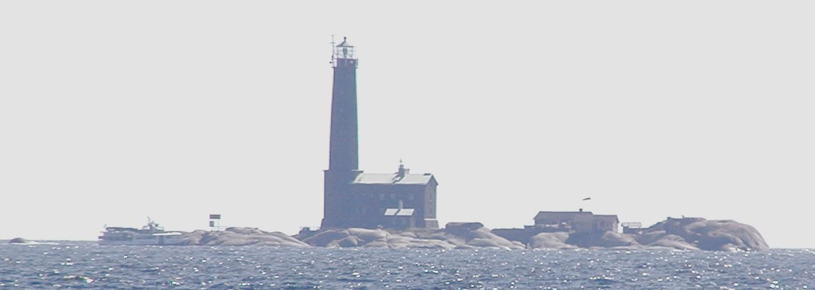 Bengtskär lighthouse seen from north